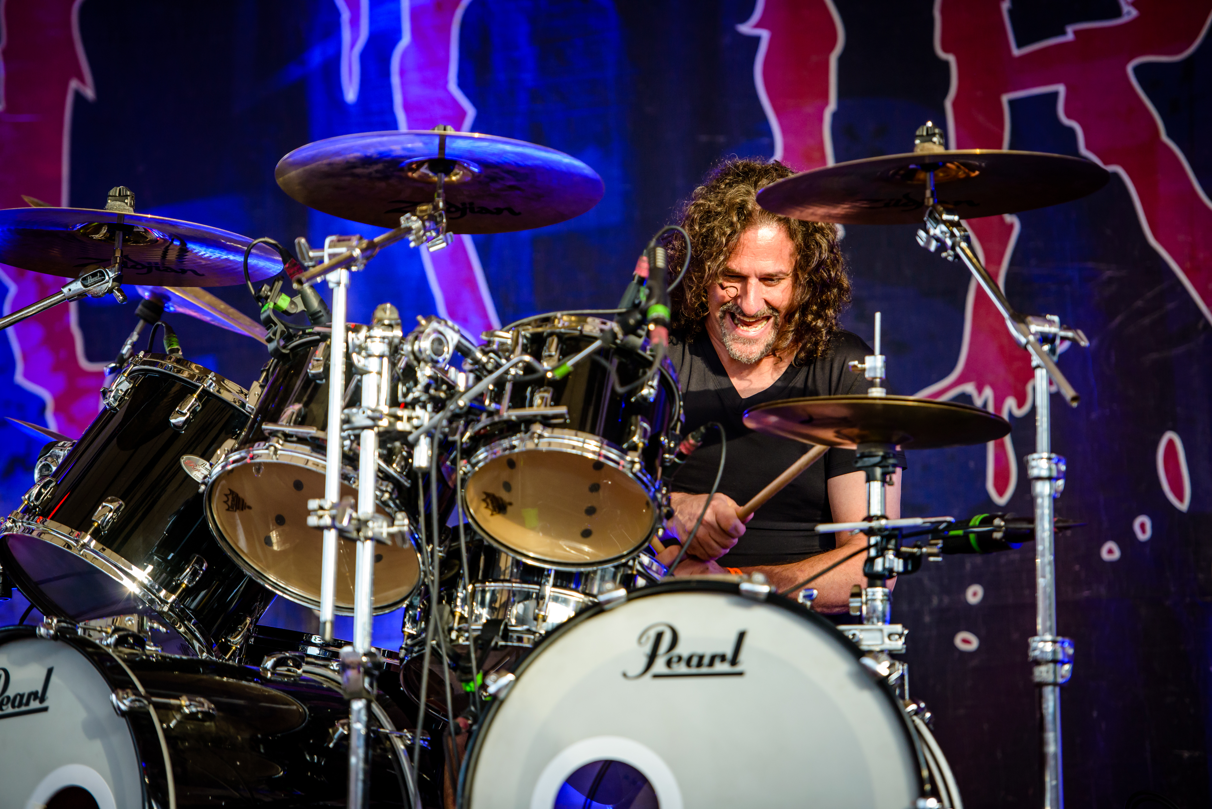 Cannibal Corpse; RockHard Festival 2016